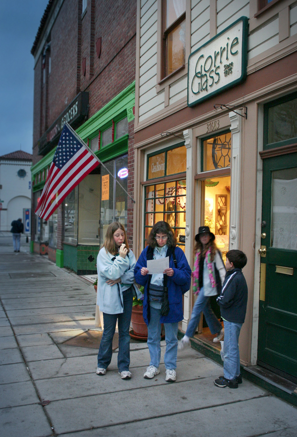 A scene in front of the Corrie Glass shoppe in Historic Niles during the Art Walk event of 2005.